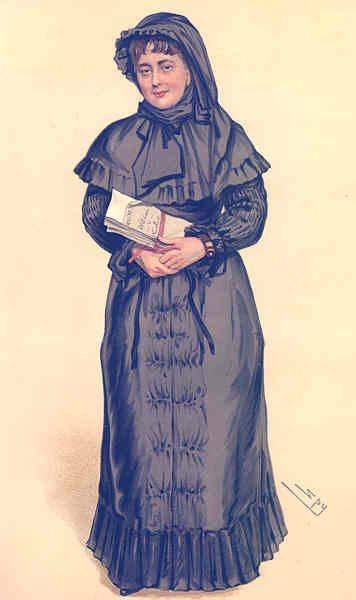 Caricature of Georgina Weldon.